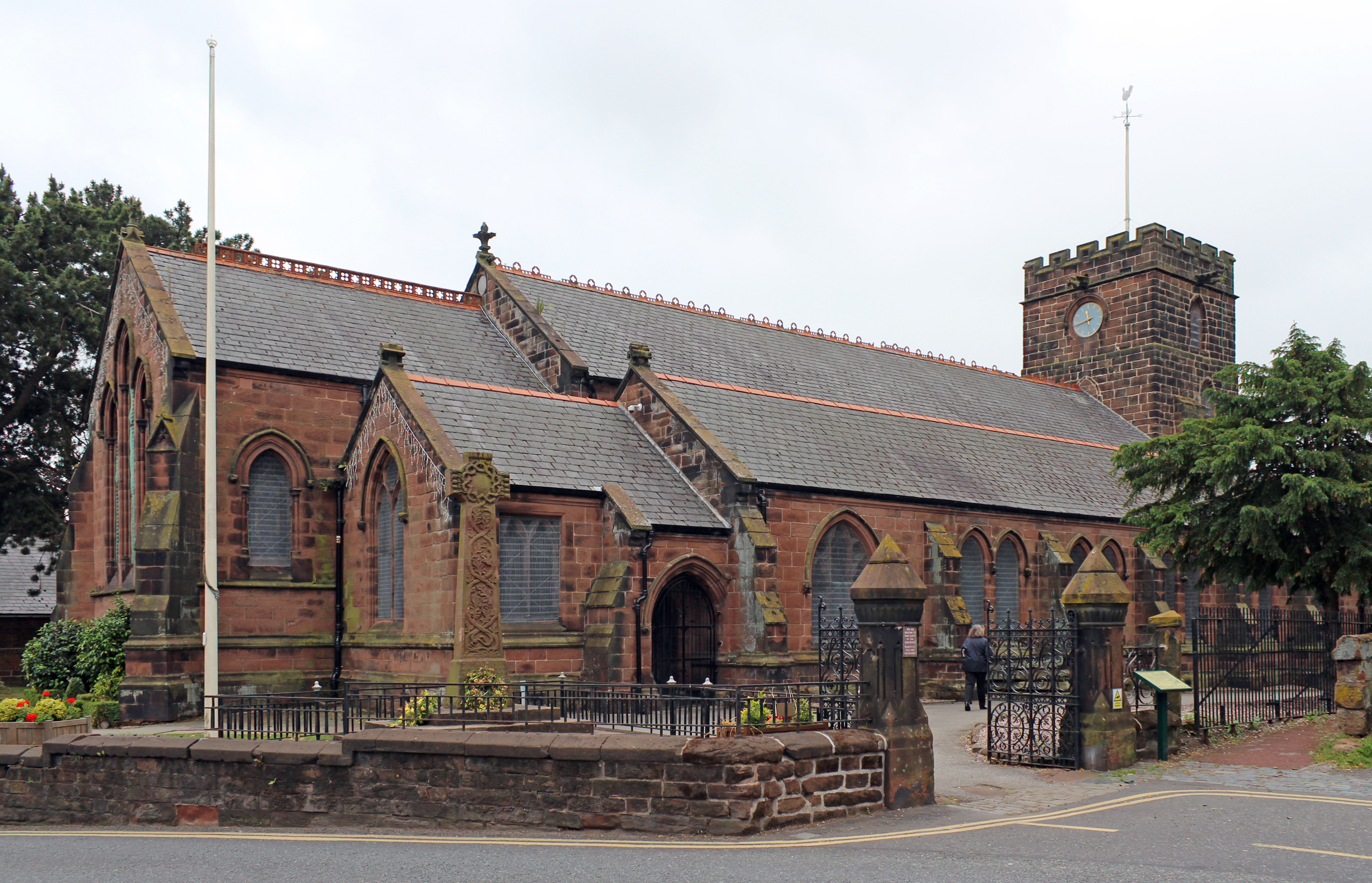 Grade II* listed mostly 17th century church in Neston, Cheshire. View south across High Street.